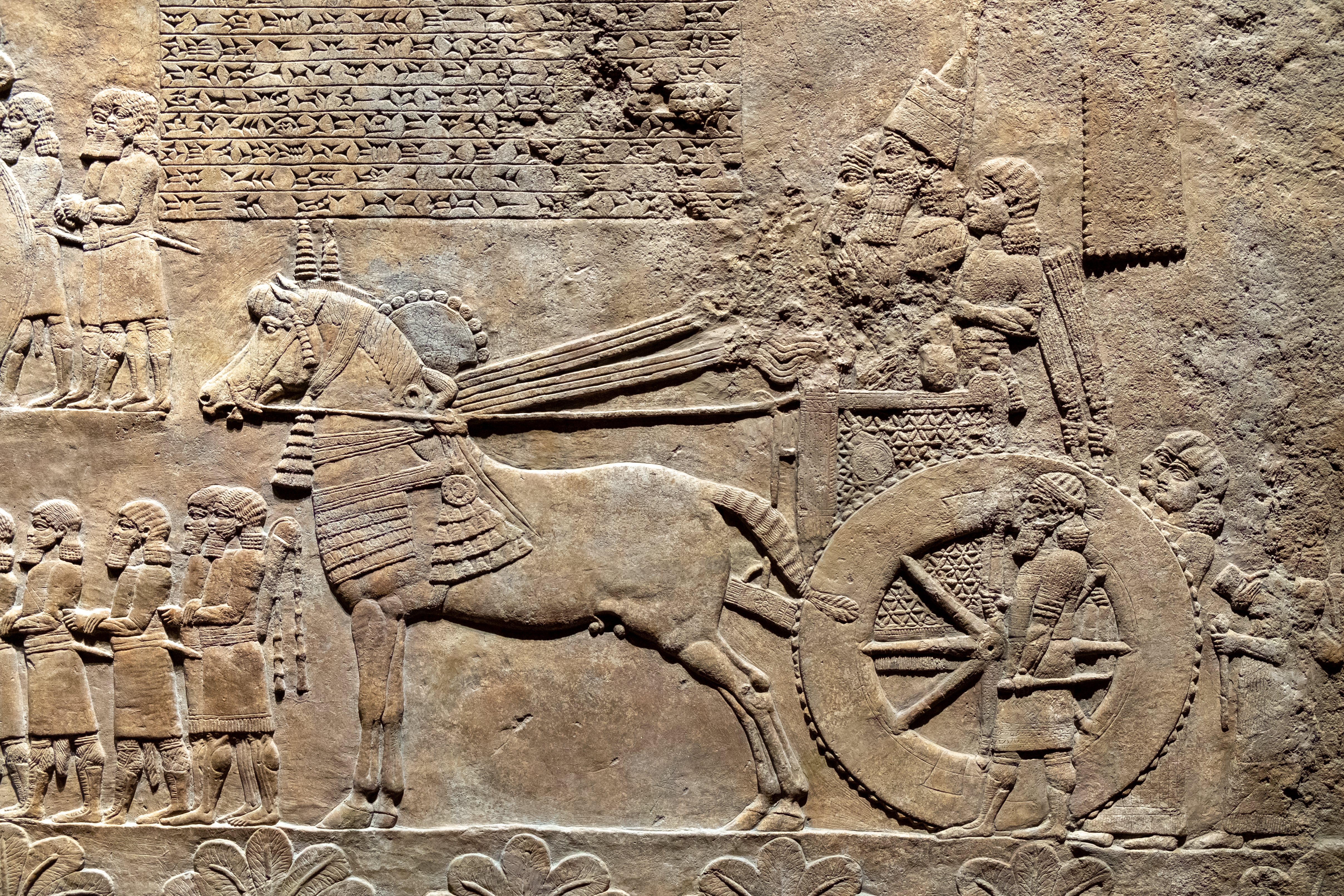 Ashurbanipal inspects booty and prisoners from Babylon, 645-640 BCE British Museum, London. Ashurbanipal inspect booty and prisoners from Babylon after a two years siege, in 648 BC. Inscription:" I, Ashurbanipal, king of the universe, king of the land of Ashur, who, at the command of the great gods has attained the desires of his heart: the garments and ornaments – the royal insignia of Shamash-shum-ukin, the faithless brother – his harem, his officials, his battle troops, his (battle) chariot, his processional chariot – his state vehicle, all the provisions which were in his palace, the people, male and female, great and small – they made to pass before me." Wall panel; relief British Museum (in en). The British Museum.